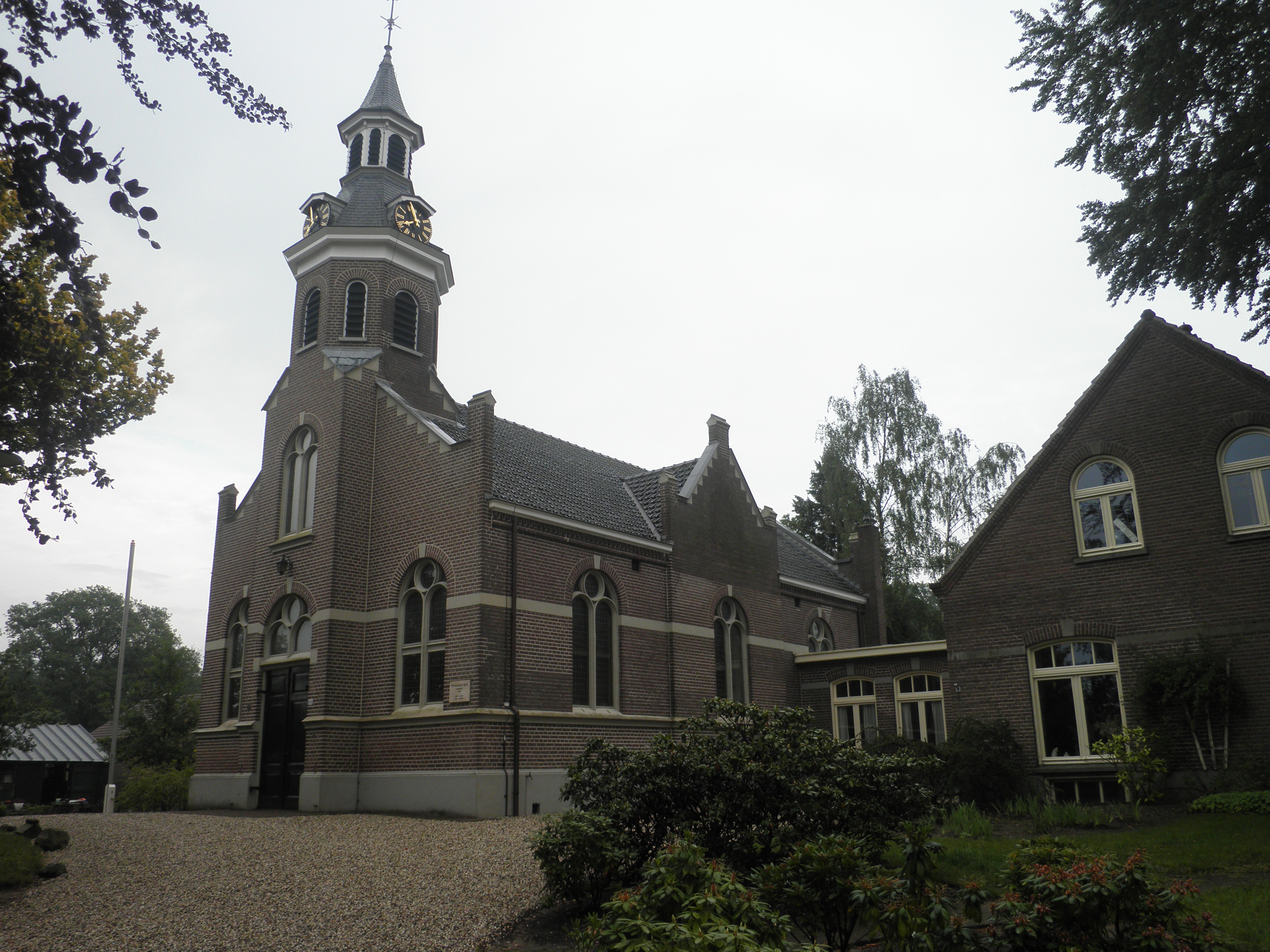 Protestand church in Okkenbroek, the Netherlands, built in 1904 in Neo Renaissance style. Nationally listede heritage.